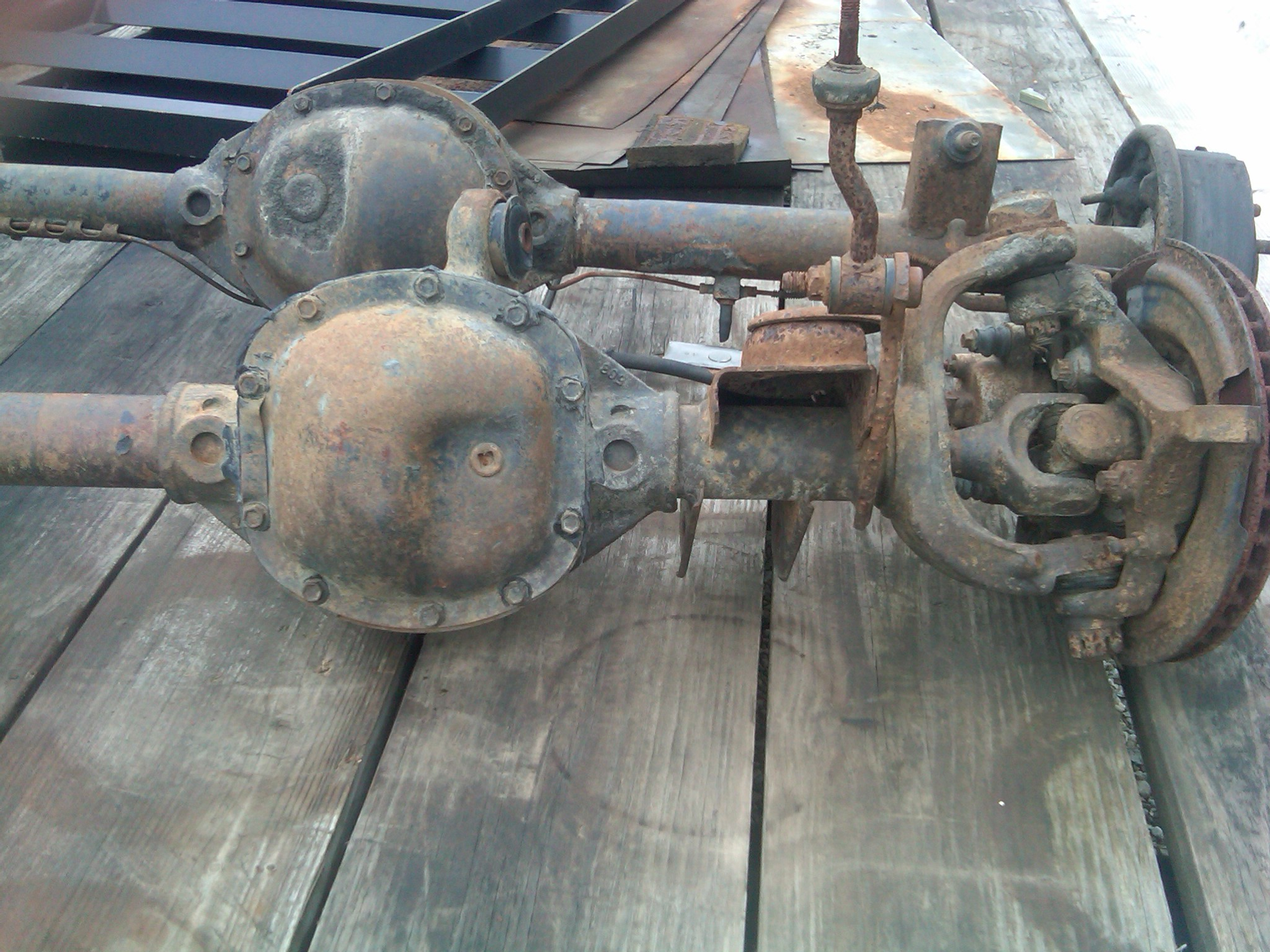 Dana 30 front axle. (With Dana 35 rear axle behind)